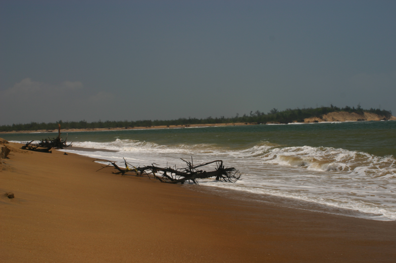 The Sea Mouth Island in the Chilika Lake